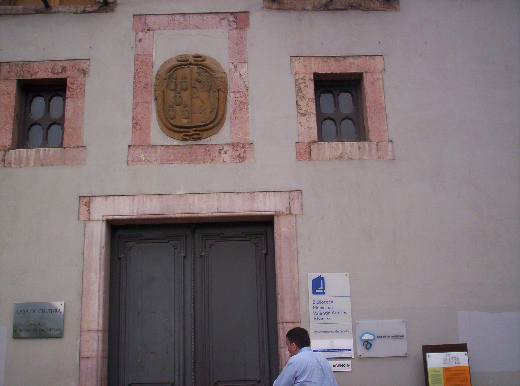 Miranda-Valdecarzana Palace with Miranda coat of arms in Grado, Asturias